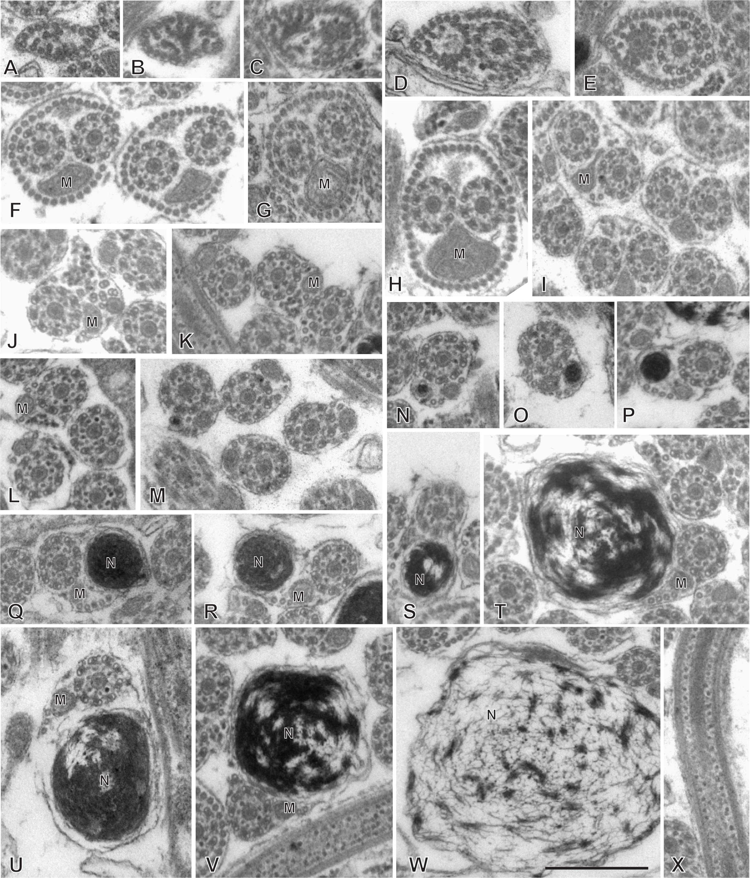 Figure 3 of the paper. Spermatozoon of Chimaericola leptogaster. A-W, transverse sections, in antero-posterior sequence; X, longitudinal section. A-C, anteriormost part of spermatozoon; peripheral microtubules and progressive appearance of the two centrioles. D, E, one fully formed axoneme and section of the centriole of the other axoneme. F-H, peripheral microtubules (full ring in G,H), two axonemes, and mitochondrion. I, two axonemes, peripheral row of microtubules reduced to a few units, and mitochondrion. J, one axoneme, distal extremity of other axoneme as scattered doublets and central core, a few remaining peripheral microtubules, and mitochondrion. K-M, one axoneme and mitochondrion, a few peripheral microtubules. N-P, one axoneme, a few peripheral microtubules, mitochondrion and section of the anterior thin part of the nucleus, which is wider as sections are more posterior. Q-S, one axoneme, a few peripheral microtubules, mitochondrion, and section of nucleus approximately as wide as axoneme. T-W, one axoneme, a few peripheral microtubules, mitochondrion, and wide section of nucleus. W is a very wide section with electron-transparent chromatin. X, typical trepaxonematan axoneme. Scale in W, valid for all figures: 500 nm.